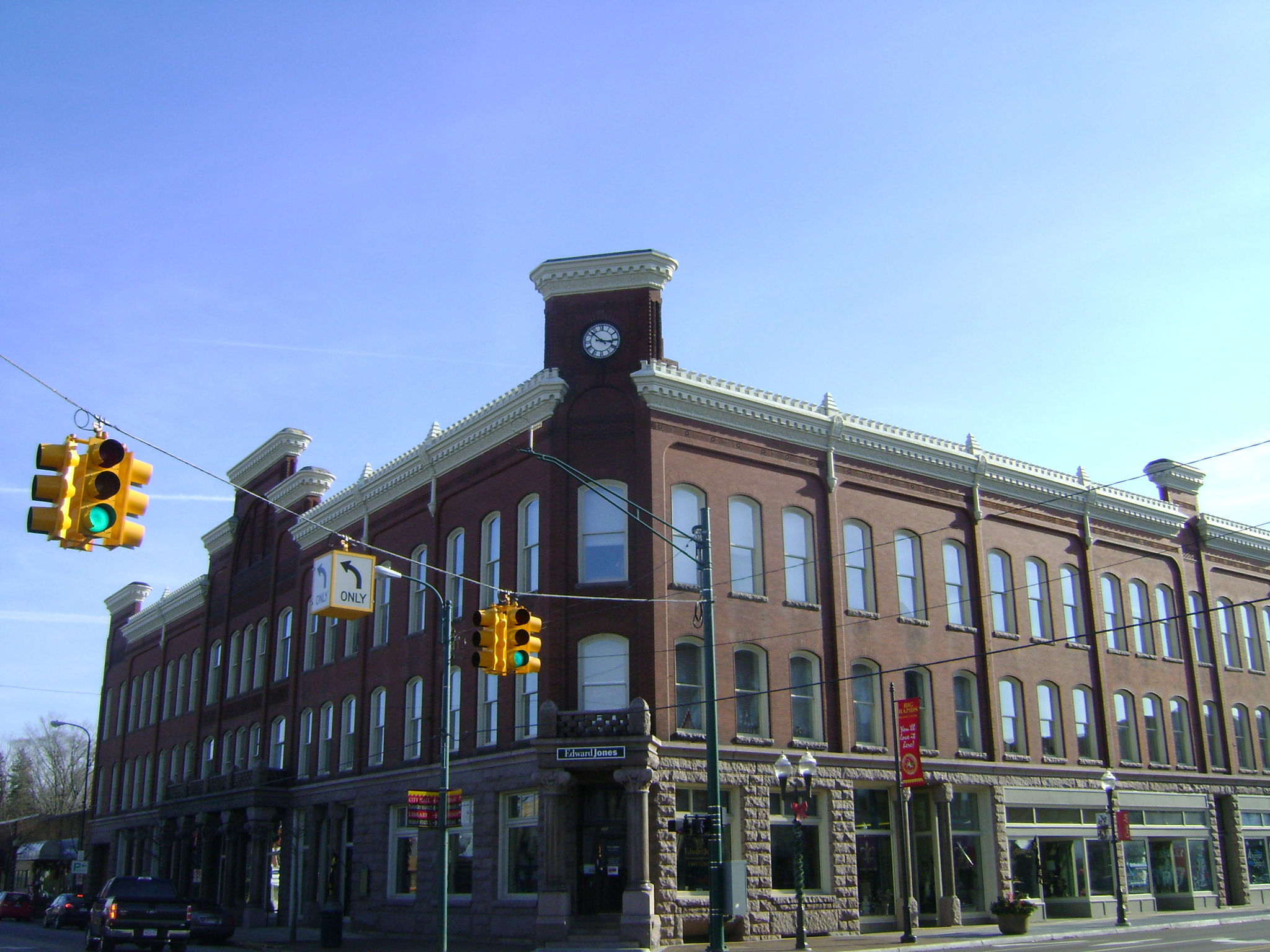 Nisbett-Fairman Residences senior housing building in Big Rapids, Michigan. It was renovated in 2003.In particular, this is the Nisbett Building, listed on the NRHP and it is a MSHS. Across the street (about 135° to the right) is the NRHP-listed Fairman Building.